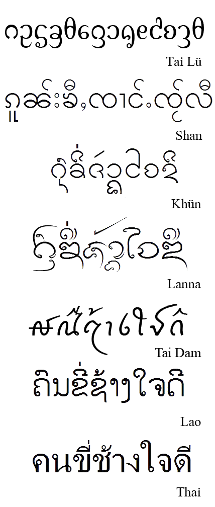 An example of Tai scripts. All are written, "Kind elephant rider." [Lit. person-ride-elephant-heart-good(good heart;kind).]